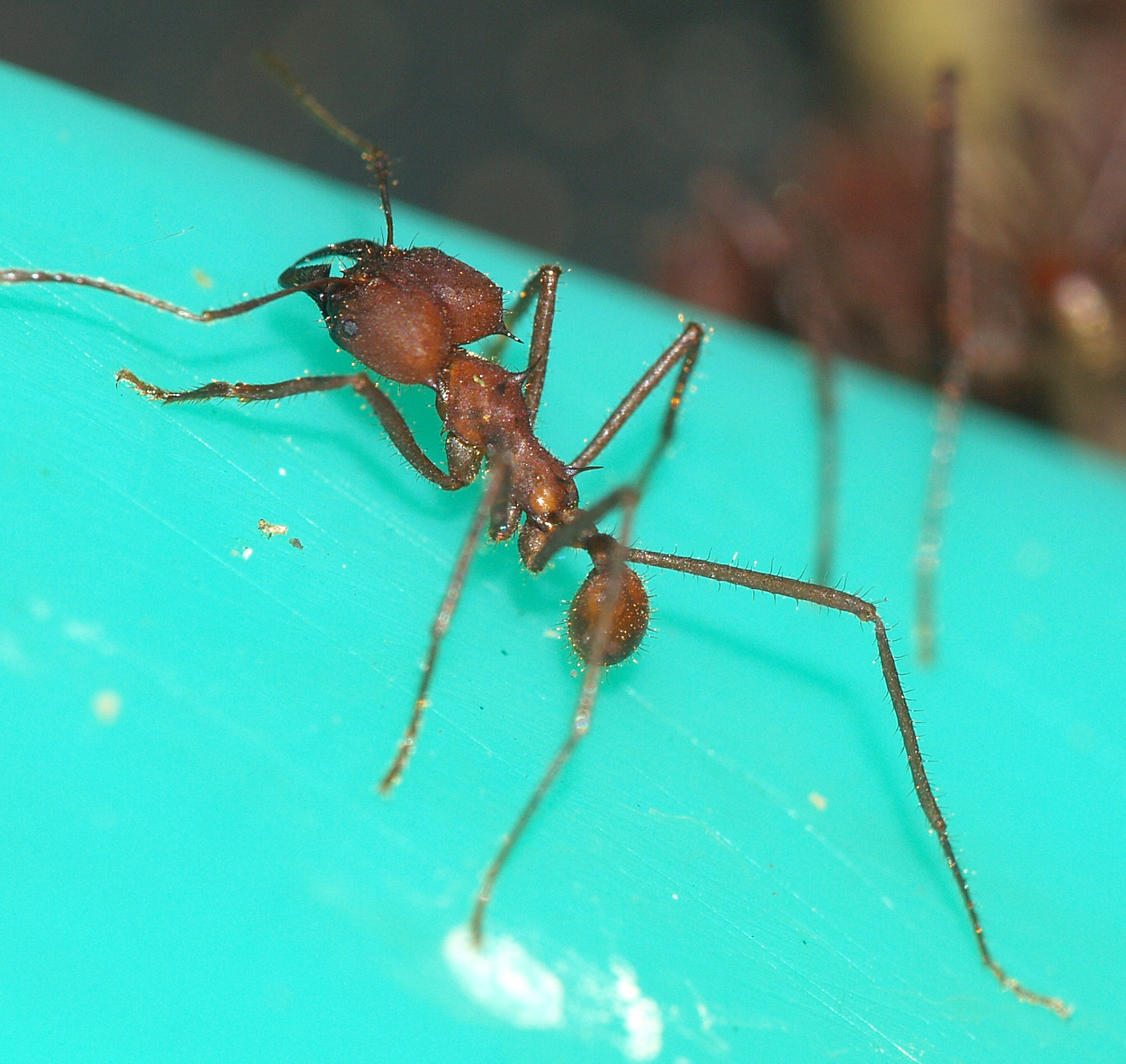 Atta cephalotes from Cologne Zoo, Germany.